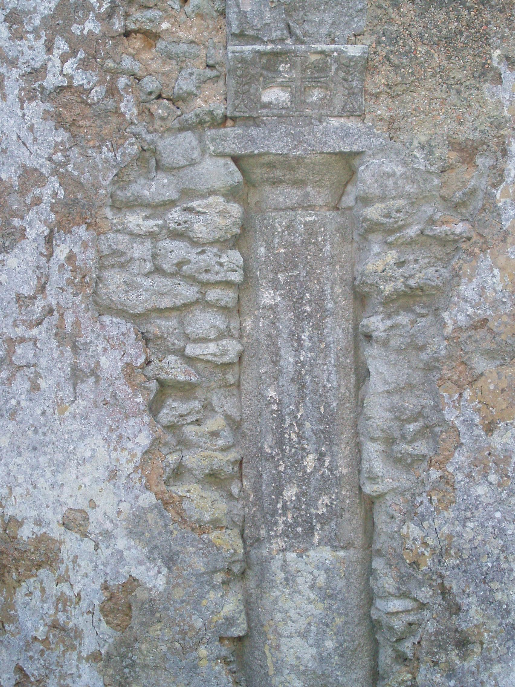 Romanic Church in Apulia